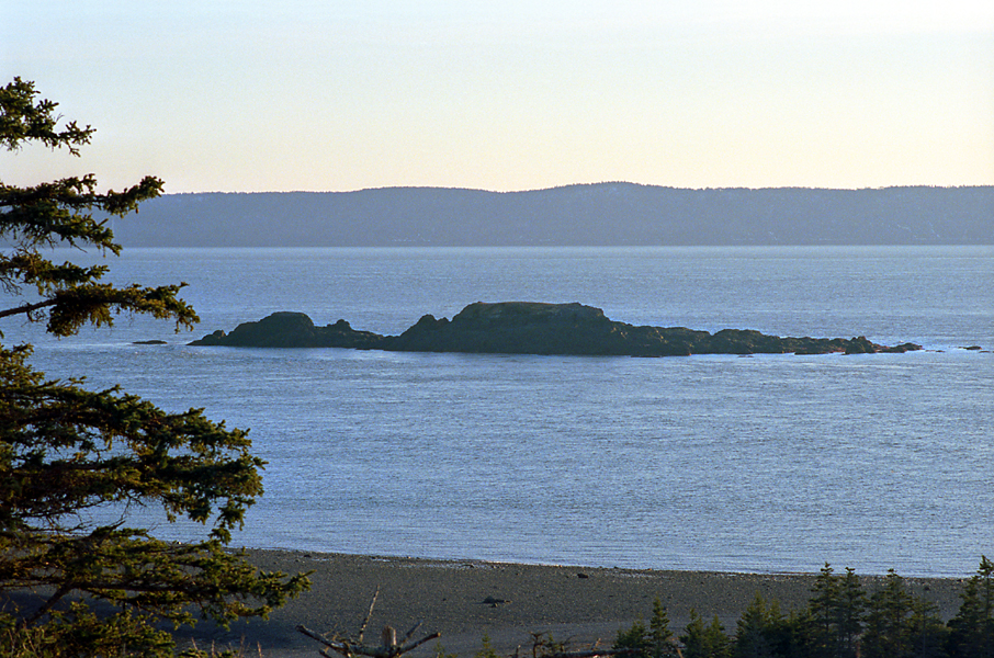 The community of Black Rock is named after a large intertidal basalt formation offshore in the Midas Channel. Due to the extremely high tides in the area, the currents around the rock are notably treacherous except at the turning of the tides.